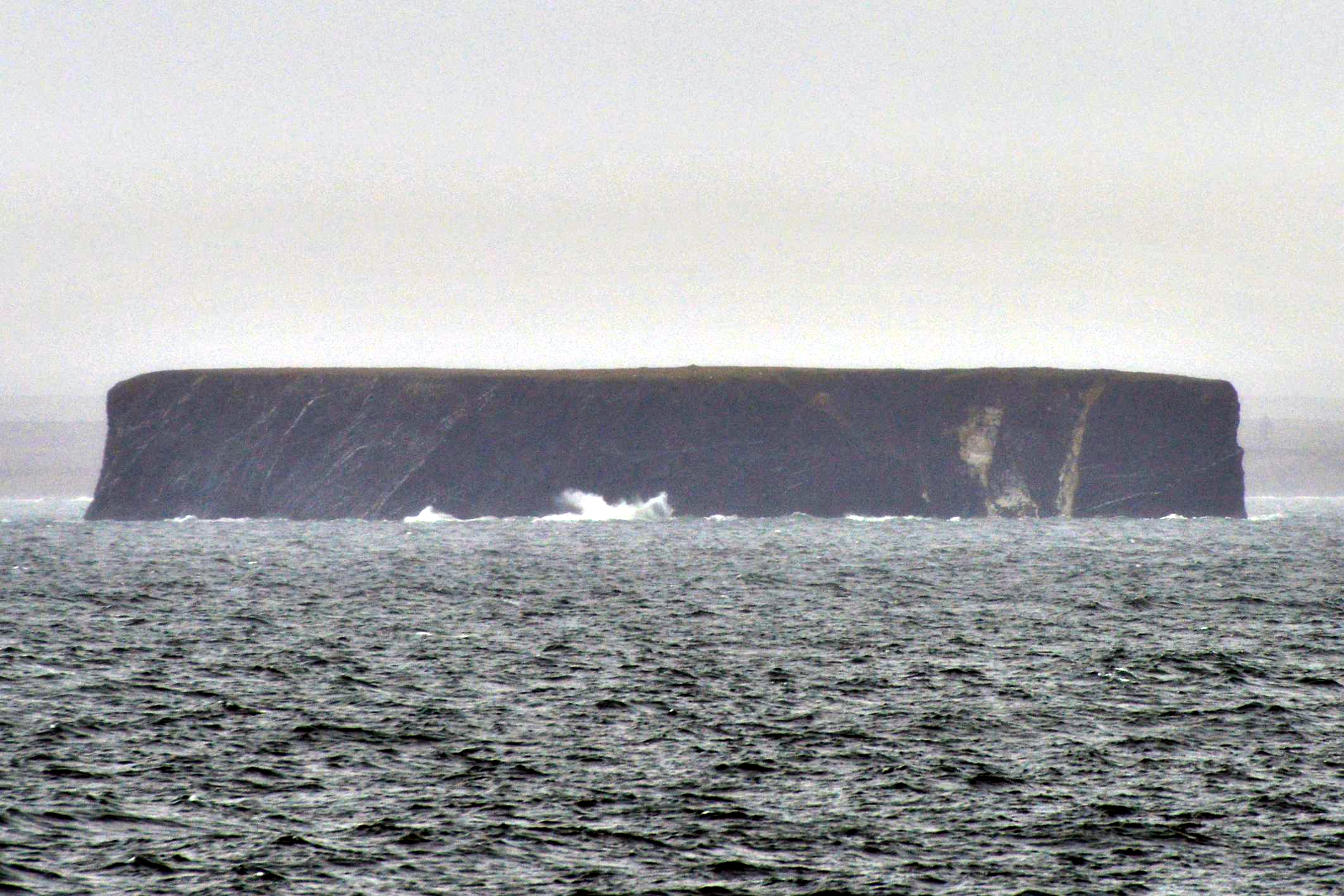 Strichova Island, a small rock island at southwest tip of Belkovsky Island (New Siberian Islands, Russia; 75°18’40‘‘N, 135°28’52E)